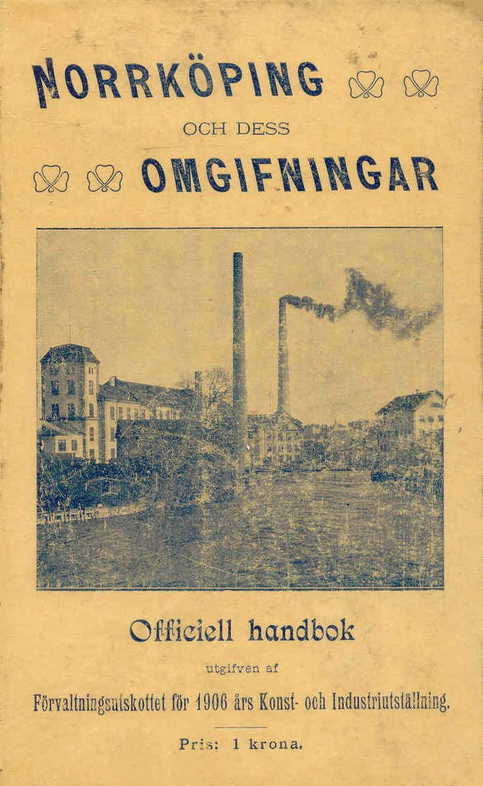 The official handbook to the Industrial and art exhibition in Norrköping, Sweden, the summer 1906.